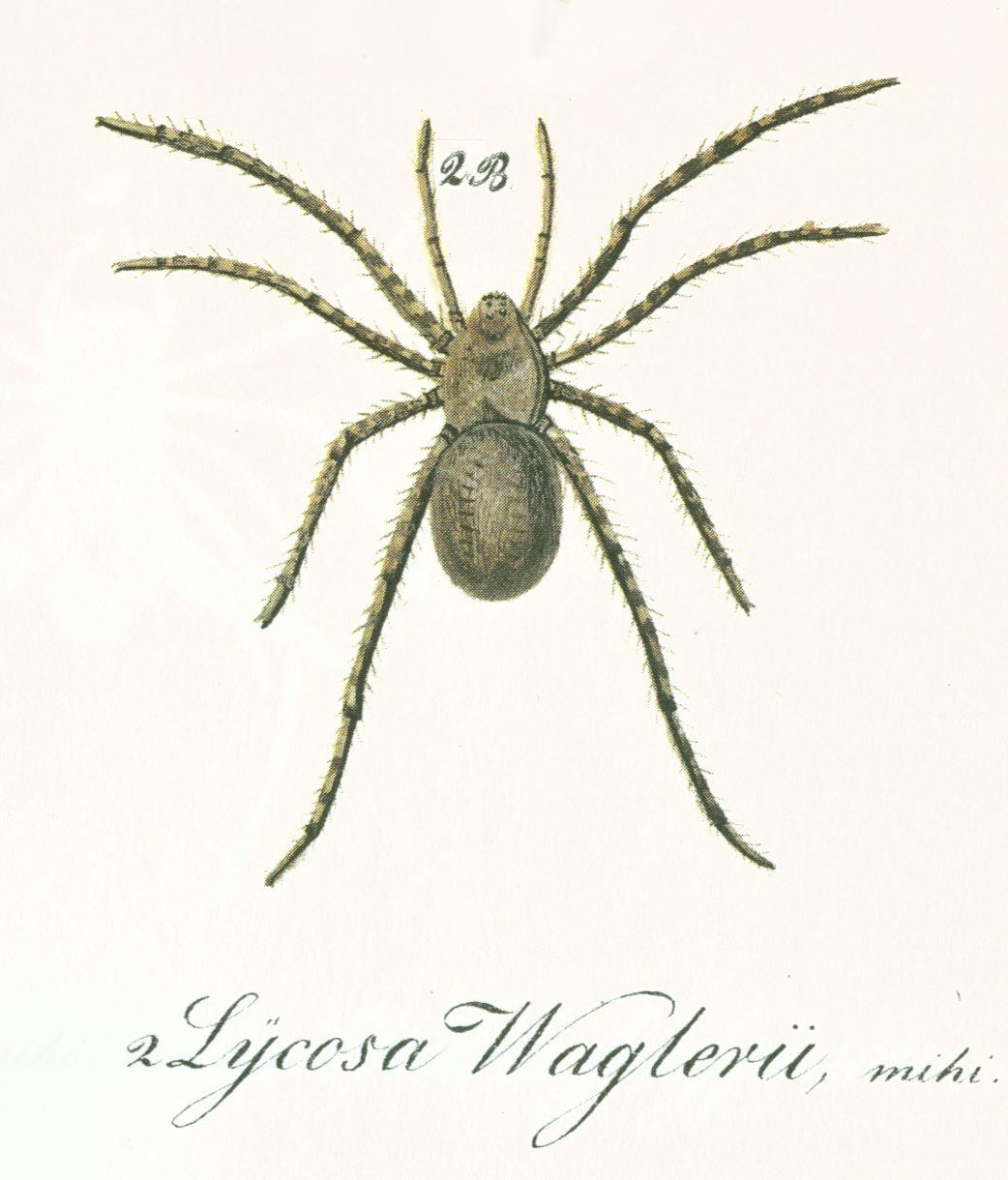 Origin: Carl Wilhelm Hahn: Monographia Aranearum - Monographie der Spinnen. Instalment 3, Lechner: Nürnberg, 1822.